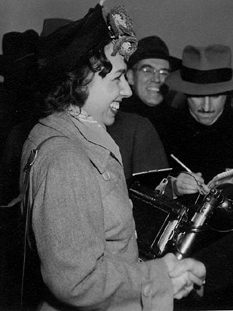 Marion Carpenter, in a 1949 card